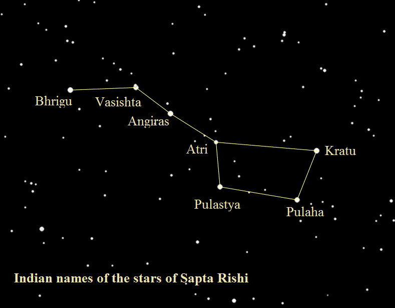 Stars of the Sapta Rishi (Ursa Major) with their Indian Astronomical names